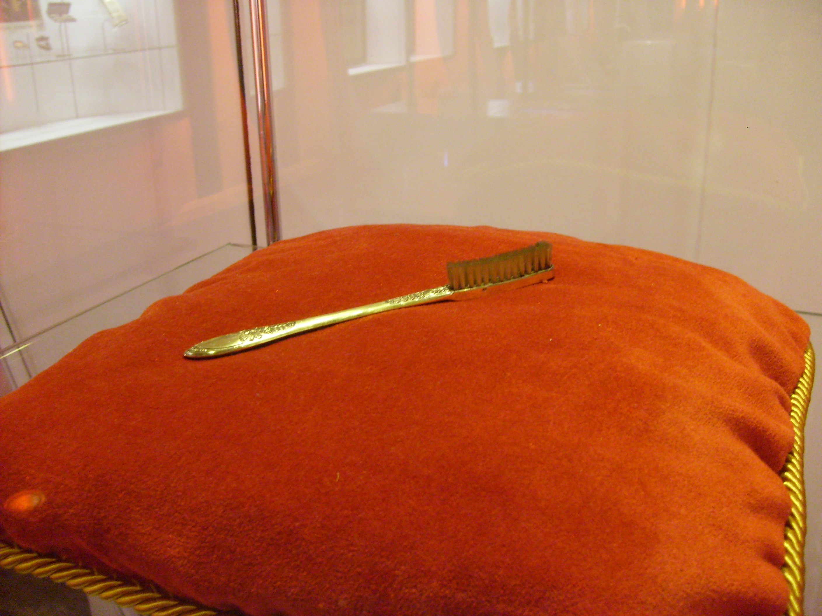 Really. This is his toothbrush! He regularly used sand powder with opium to brush his teeth. Silver-plated and his horse hair, 1790-1820 Collection Science Museum, London